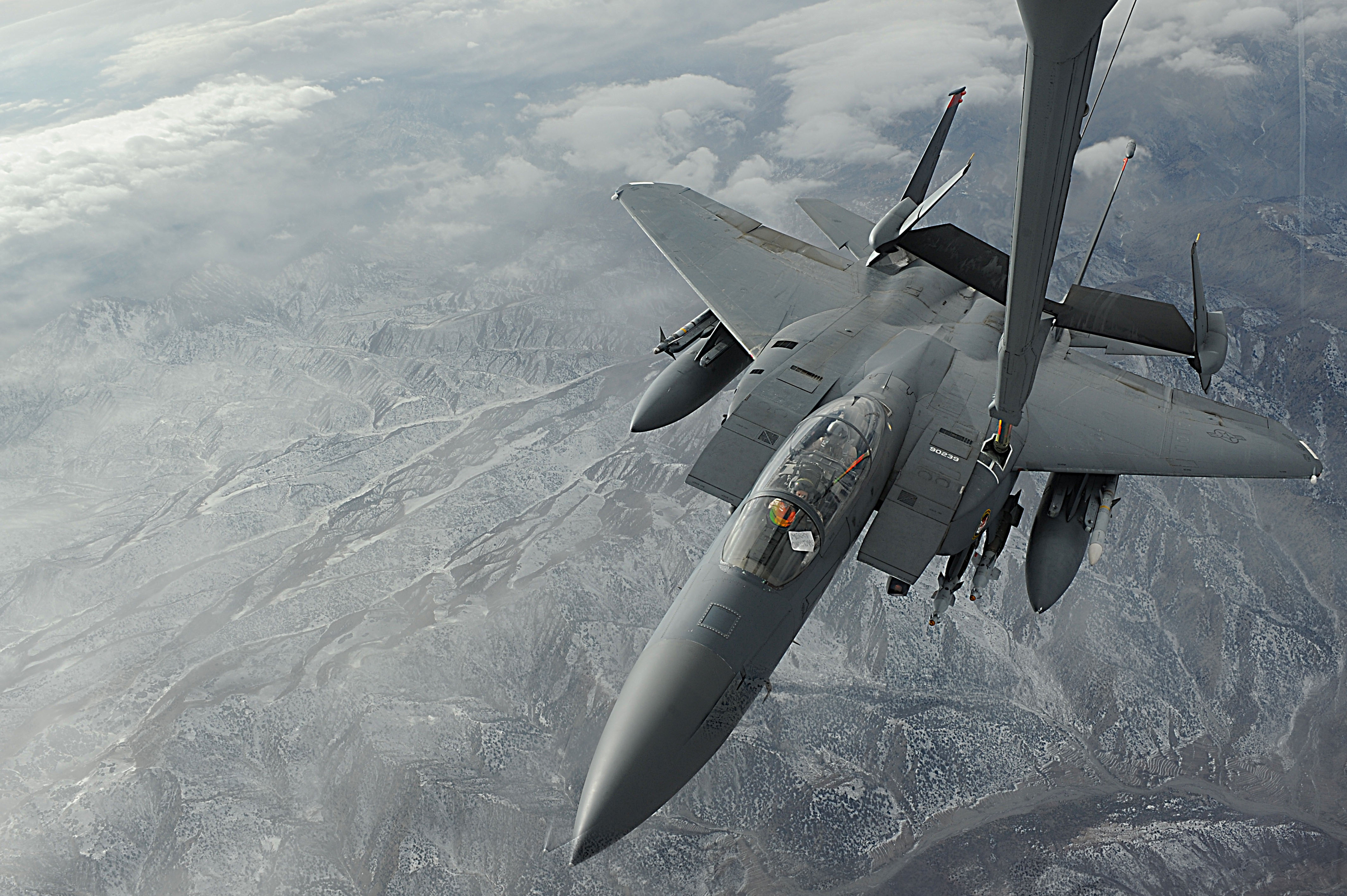 A U.S. Air Force KC-10 Extender tanker from the 908th Expeditionary Aerial Refueling Squadron refuels an F-15E Strike Eagle from the 391st Expeditionary Fighter Squadron over Afghanistan on Dec. 15, 2008. DoD photo by Staff Sgt. Aaron Allmon, U.S. Air Force. (Released)